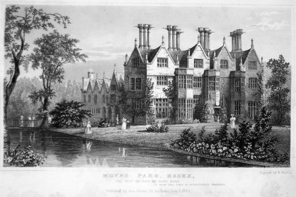 Steel line engraving of Moyns Park, Essex, by William Henry Bartlett